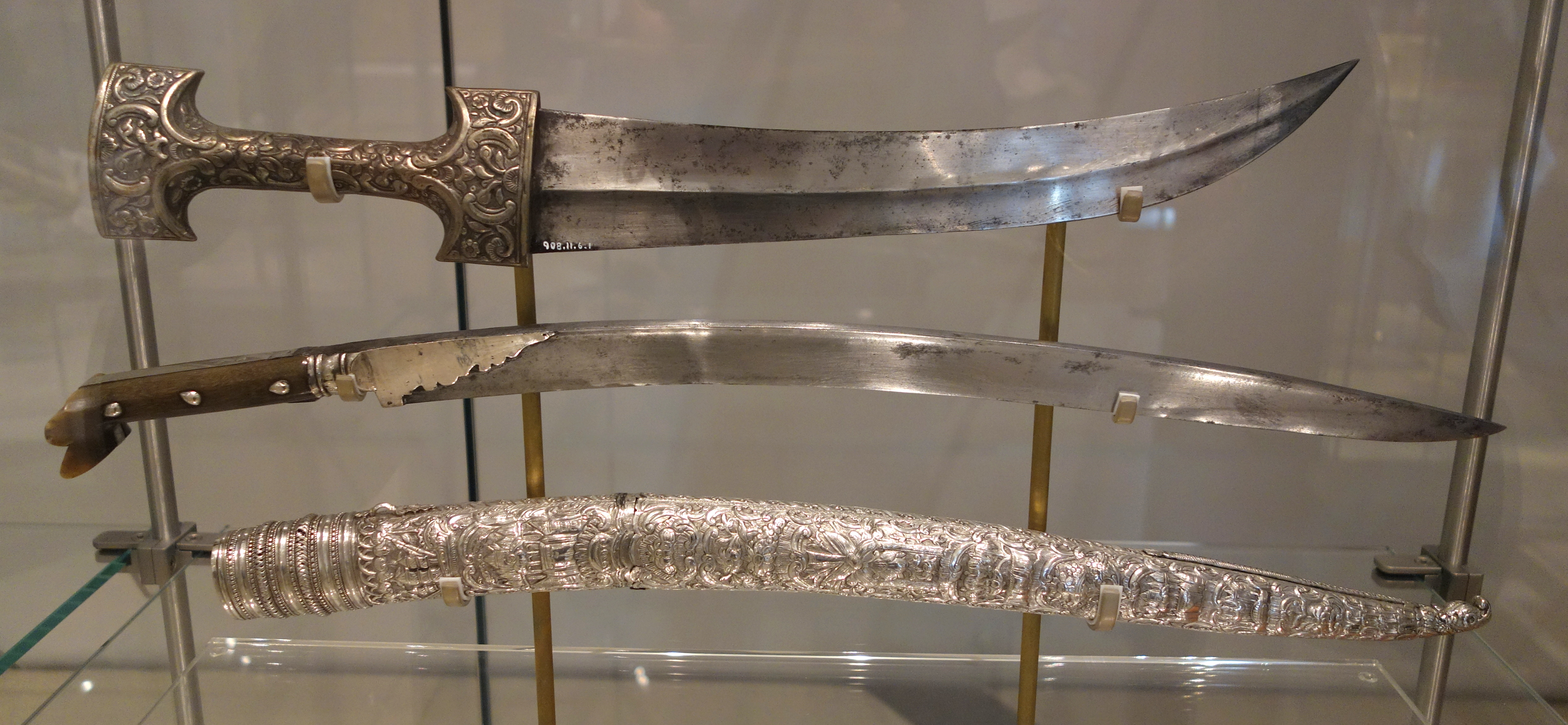 Jambiya (above), Turkey, Ottoman dynasty, 18th century, steel, silver, with Yatagan (below), Turkey, Ottoman dynasty, inscribed 866 (1866 AD), steel, silver, horn - Exhibit in the Royal Ontario Museum, Toronto, Ontario, Canada. This work is old enough so that it is in the public domain.